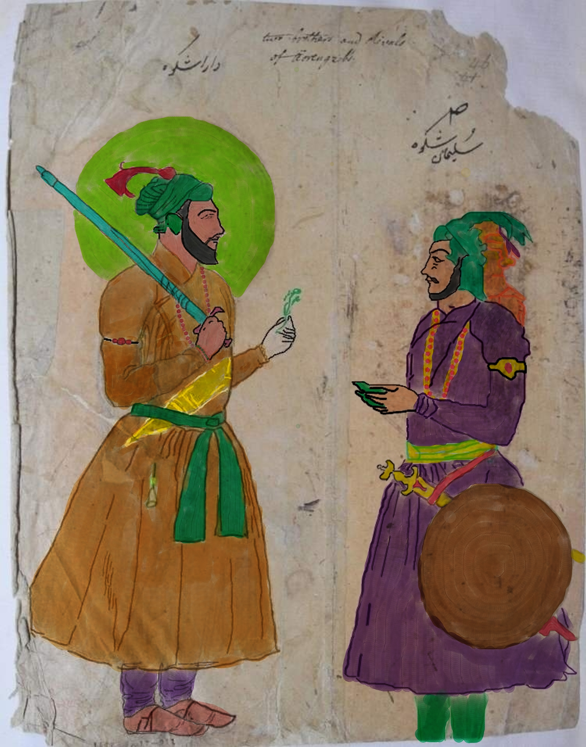 Portrait. Dárá Shikúh and Solaiman Shikúh. MSee 1920,0917,0.11 for album description.